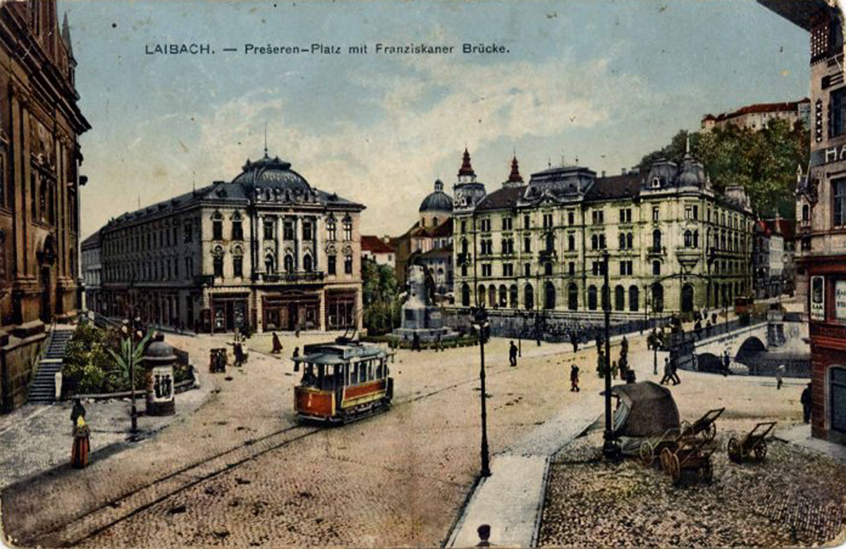 Postcard of Ljubljana